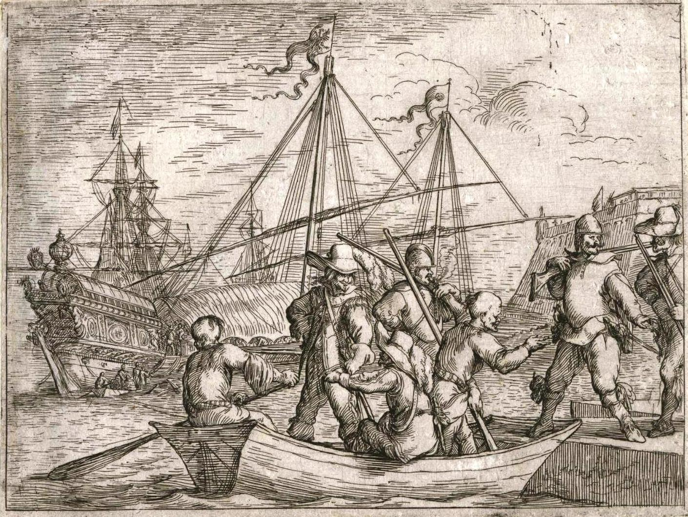 Men reach shore on boat 1634-1637 - Vessels, galleys and soldiers on board, circa 1634-1637.